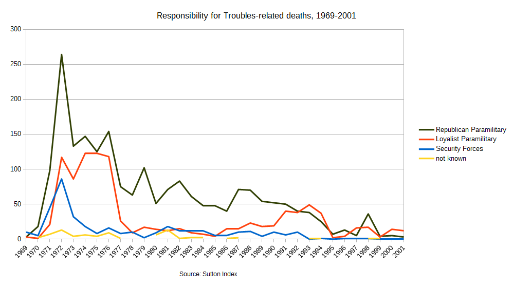 Graph of Responsibility of Troubles deaths by year, 1969 - 2001. Created from Sutton index data at: , crosstabulating Year and Organisation Summary.